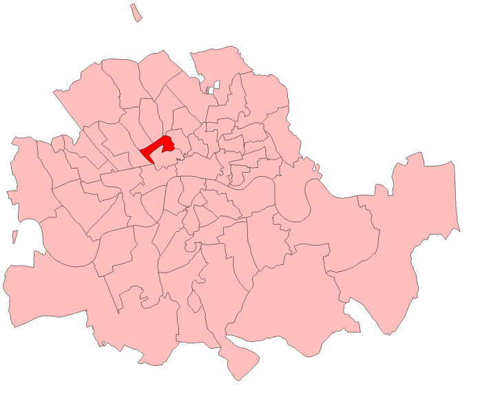 A map of St Pancras South constituency within the Metropolitan Board of Works area, as it existed from 1885 to 1918.